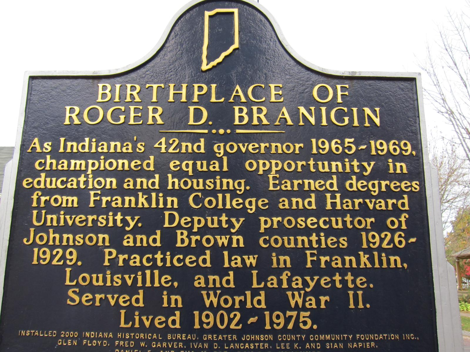 As Indiana's 42nd governor 1965-1969, championed equal opportunity in education and housing. Earned degrees from Franklin College and Harvard University. Deputy prosecutor of Johnson and Brown counties 1926-1929. Practiced law in Franklin, Louisville, and Lafayette. Served in World War II. Lived 1902-1975. Installed 2000 Indiana Historical Bureau. Greater Johnson County Community Foundation, Inc., Glen Floyd, Fred W. Garver, Ivan D. Lancaster, Lee K. and Sian Napier...